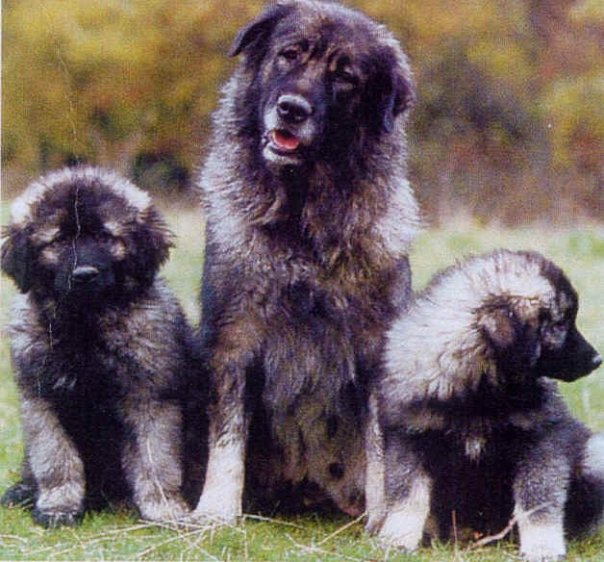 Illyrian(Albanian) Sheepdog